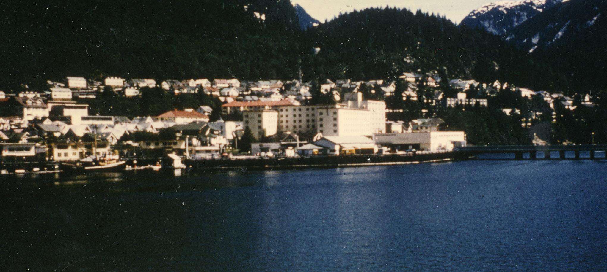 View of Ocean Falls, BC, Canada